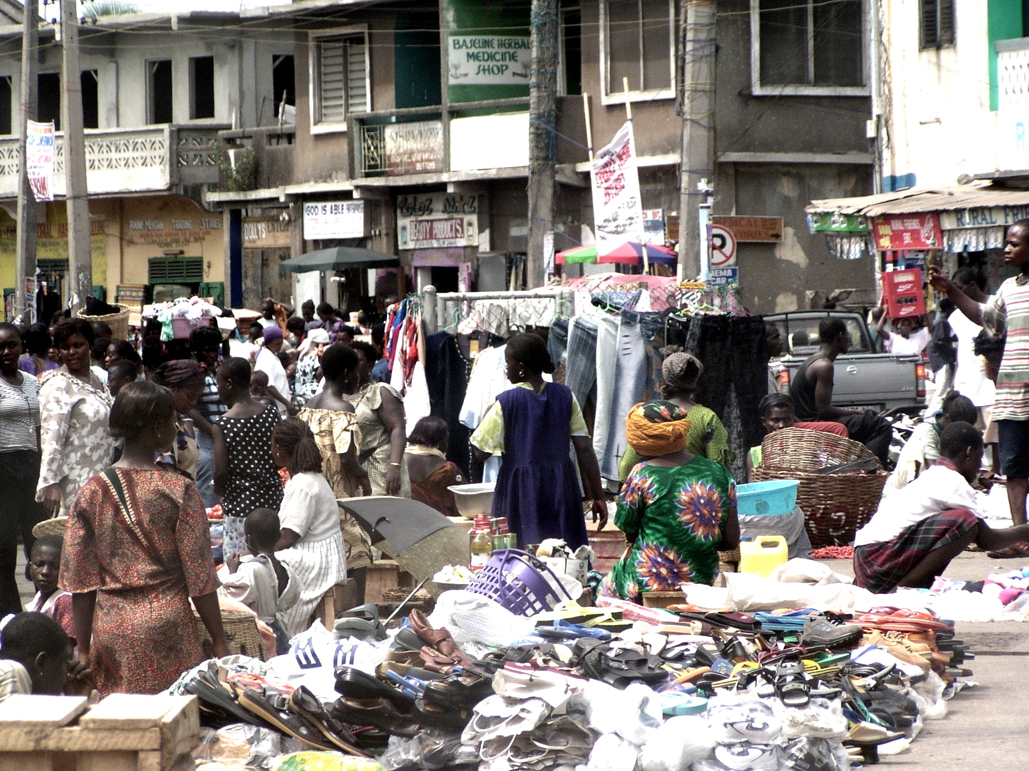 Market in Cape Coast, Ghana